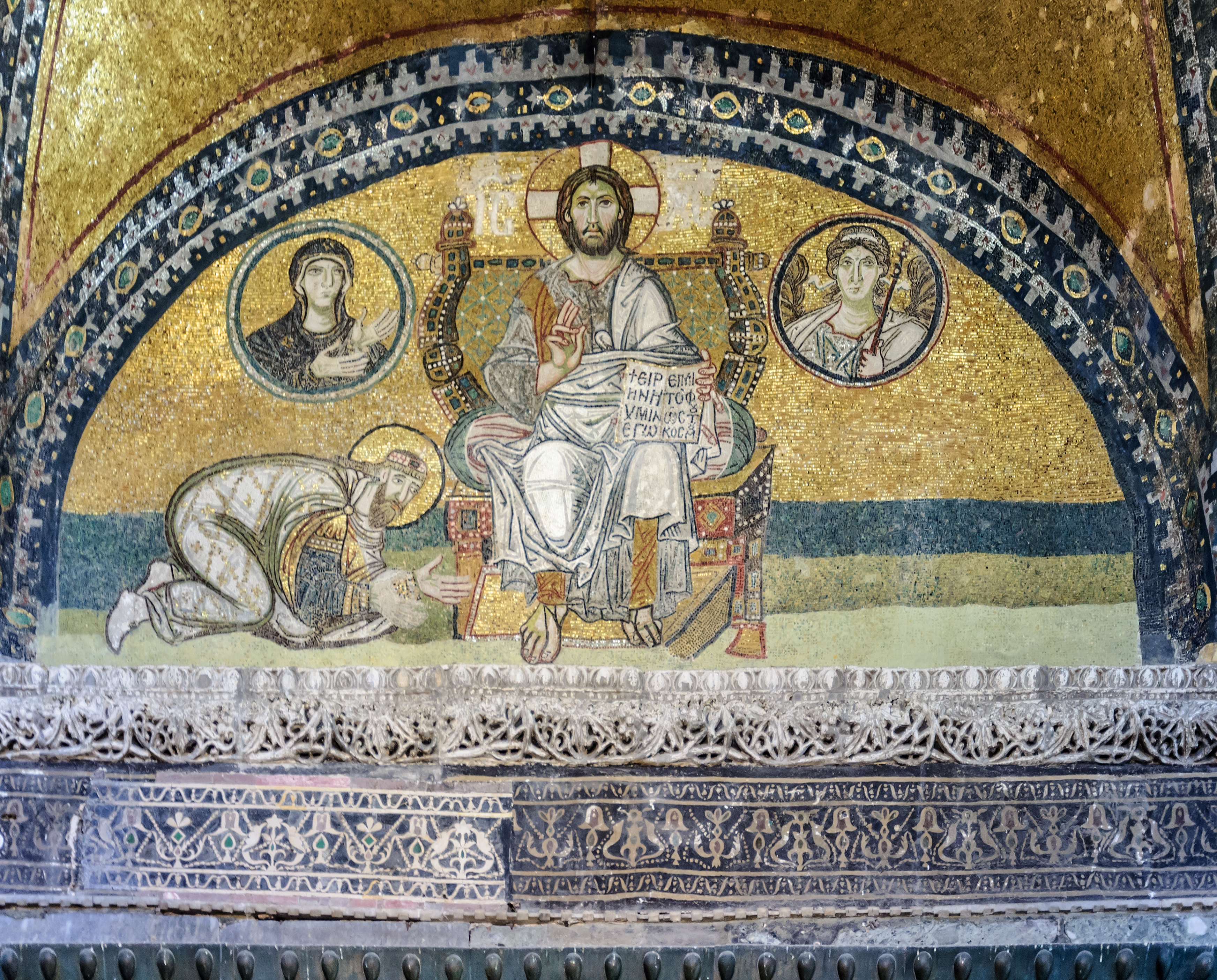 Imperial Gate mosaics in the former basilica Hagia Sophia of Constantinople (Istanbul, Turkey) The emperor Leo VI the Wise is bowing down before Christ Pantocrator. In medallions: on the left of Christ, the Archangel Gabriel; on his right, Mary.